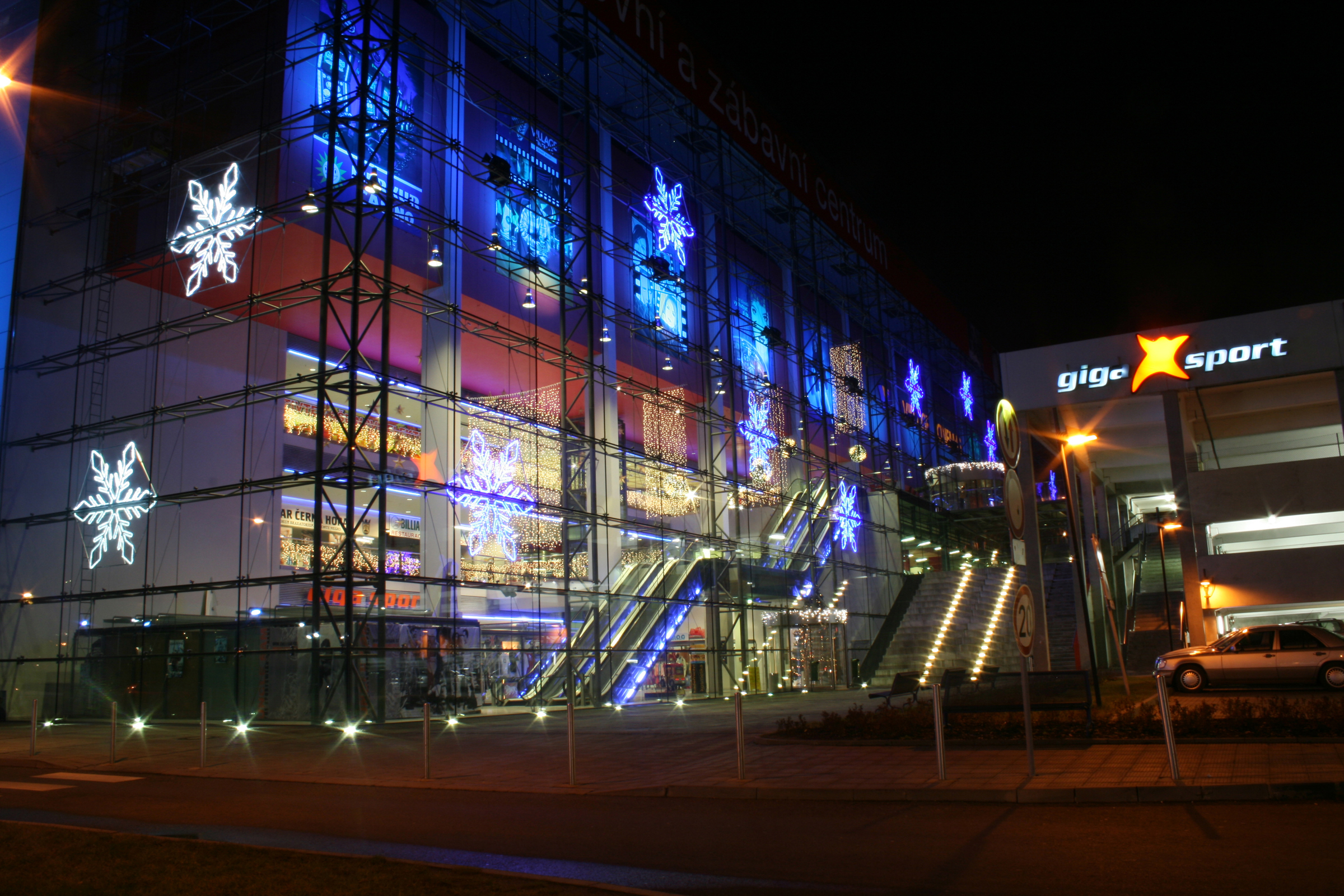 Shopping centre Village Cinemas, Prague, Černý Most, Czech Republic